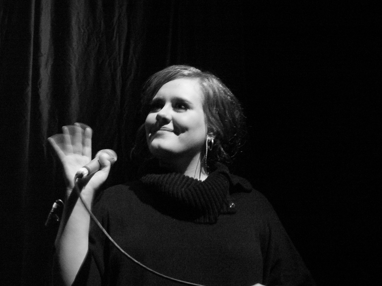 Adele on a concert in January 2009.